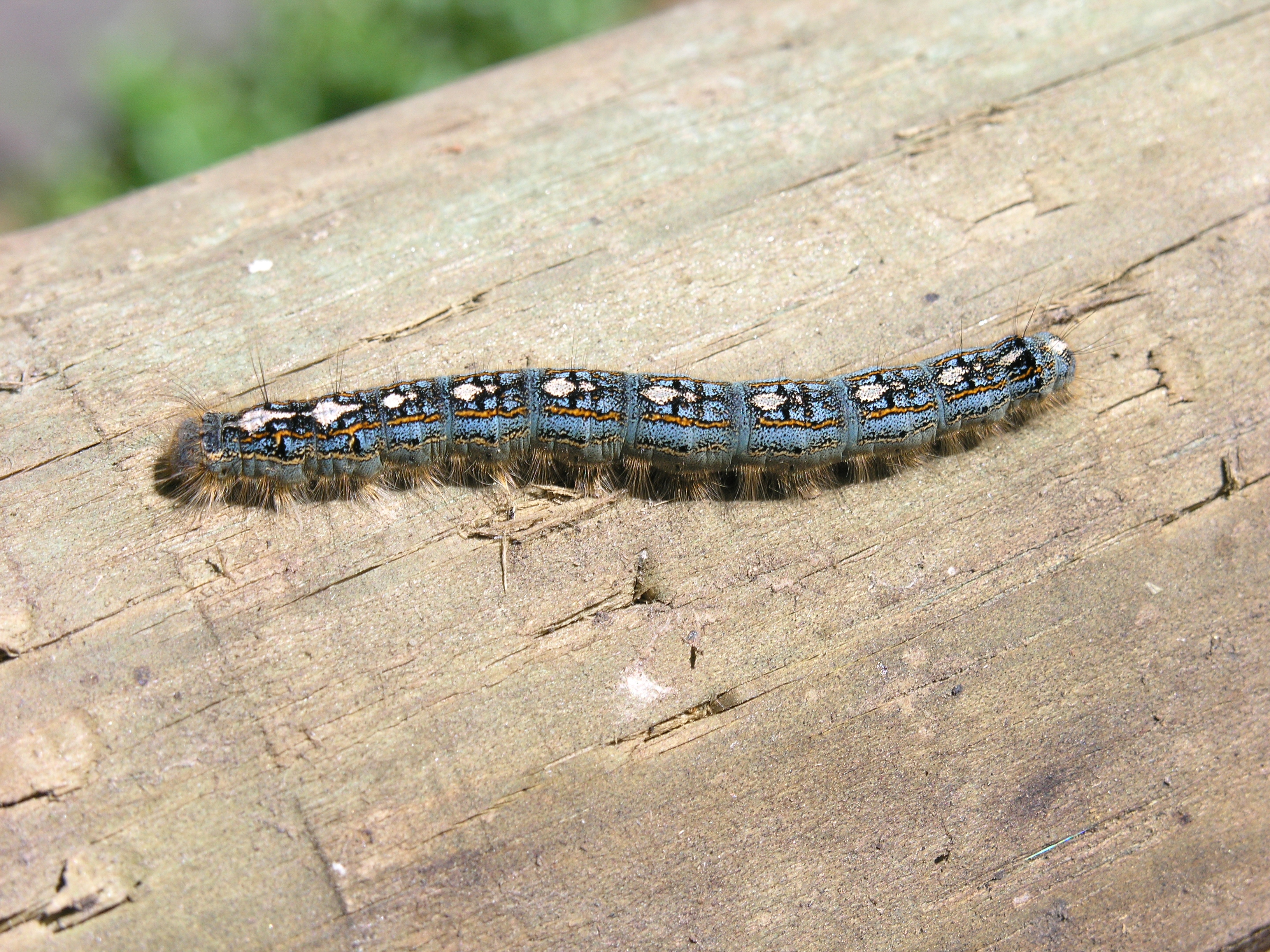 Forest Tent Caterpillar - found under pin oak tree near Cincinnati, OH.